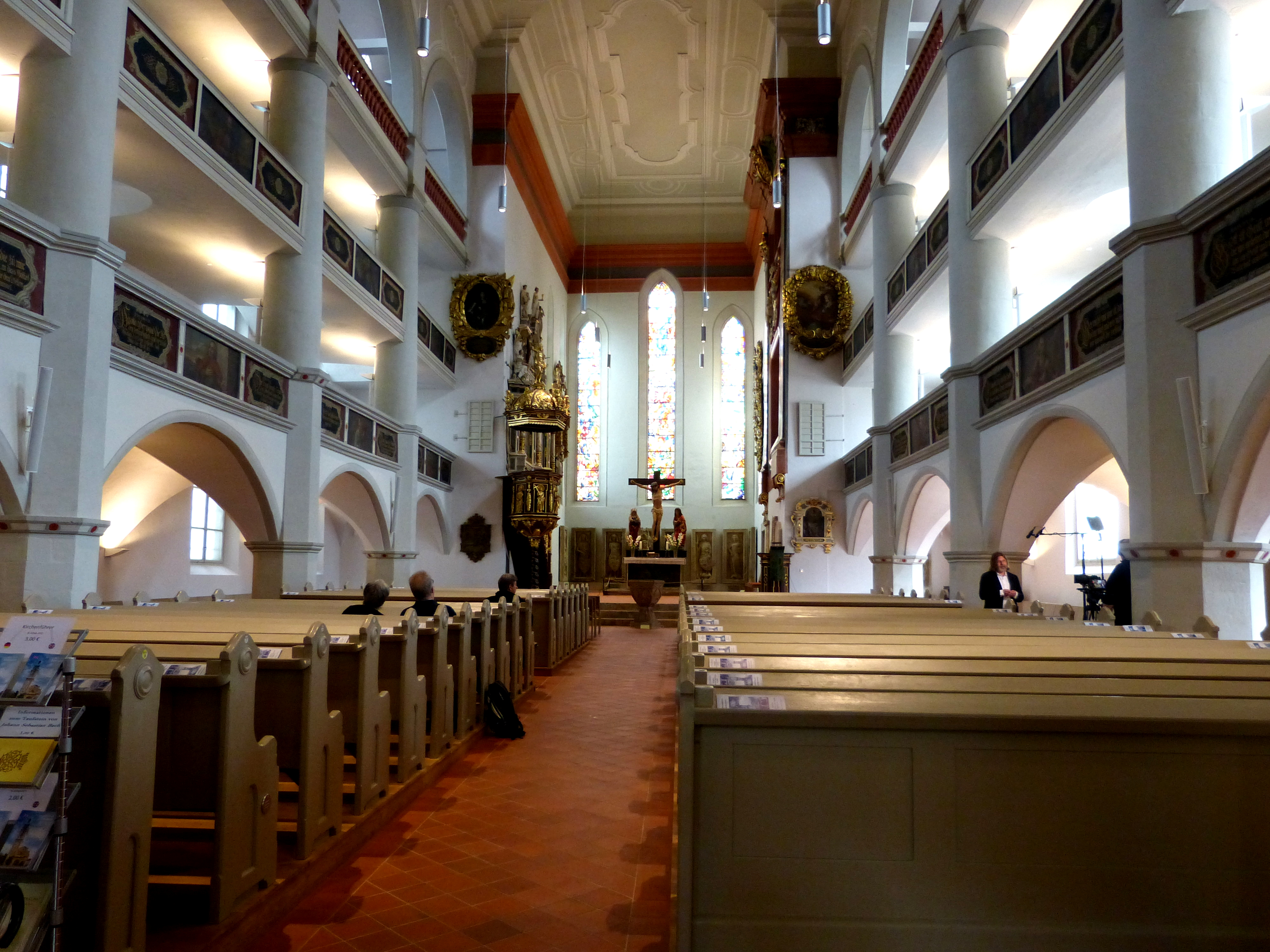 Eisenach ( Thuringia ). Saint George parish church ( 1561 ) - Interior.